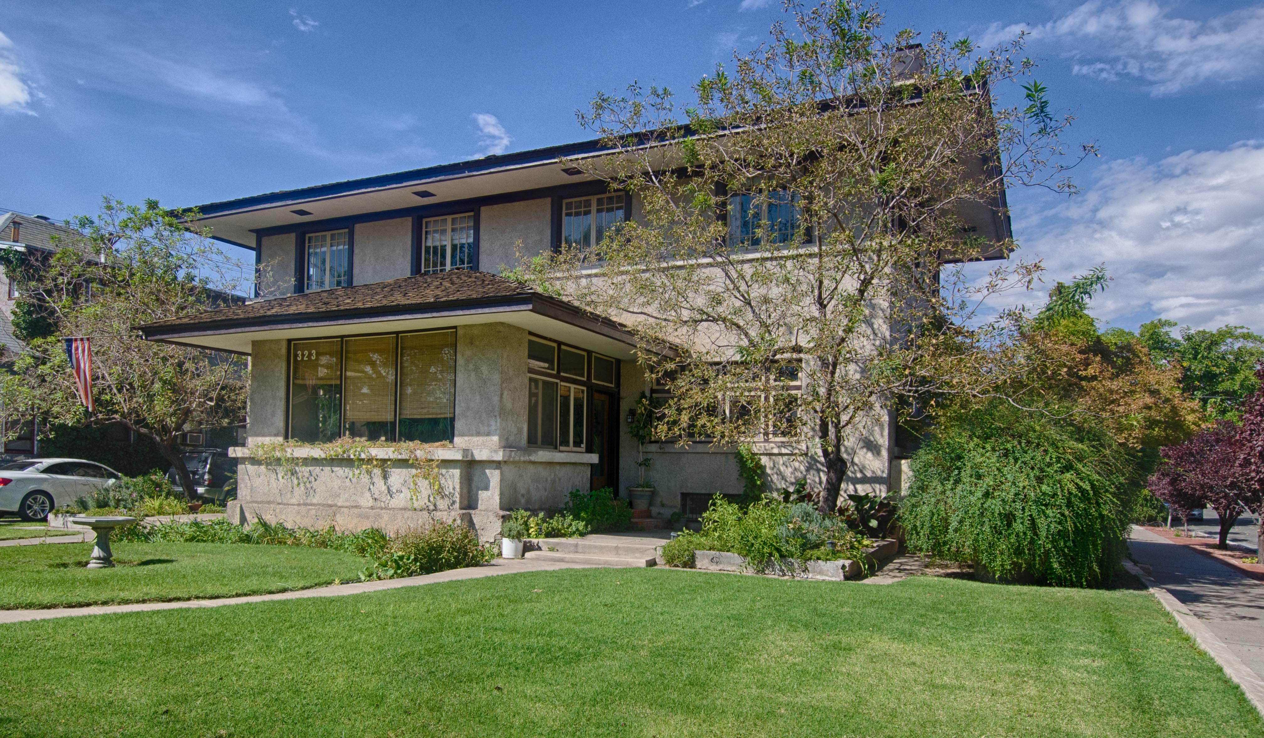 Building located at 323 10th Street NW in downtown Albuquerque